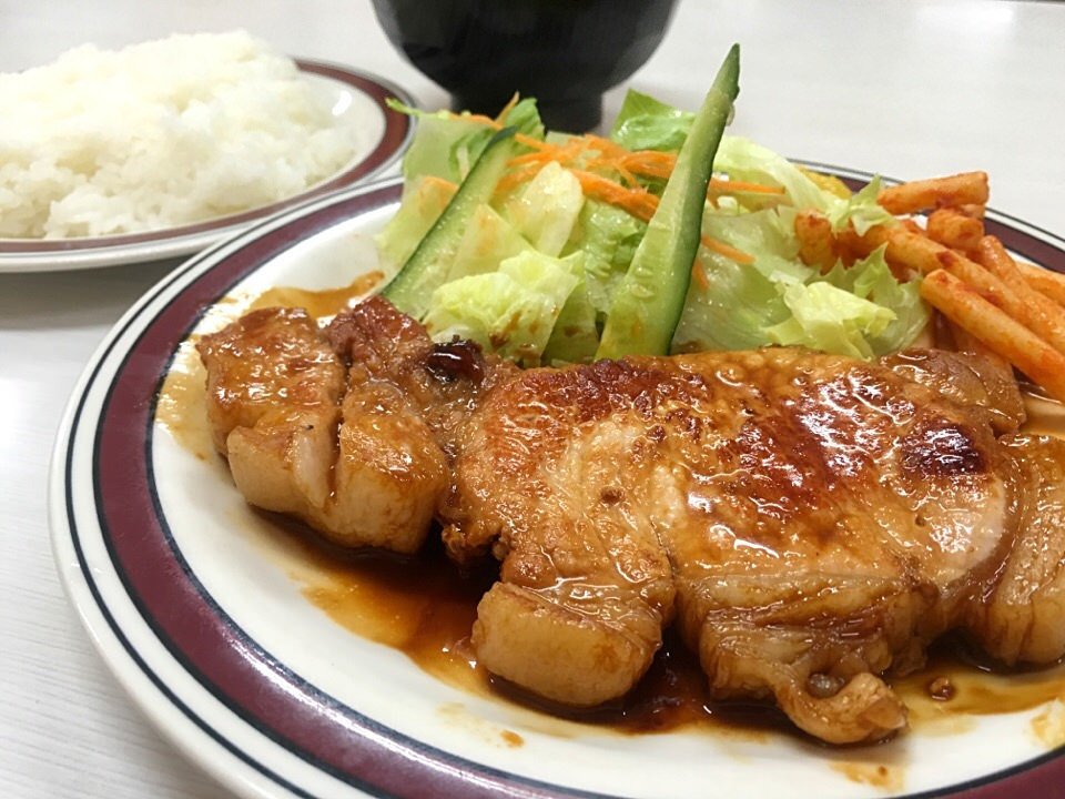 at 実用洋食 七福 via SnapDish